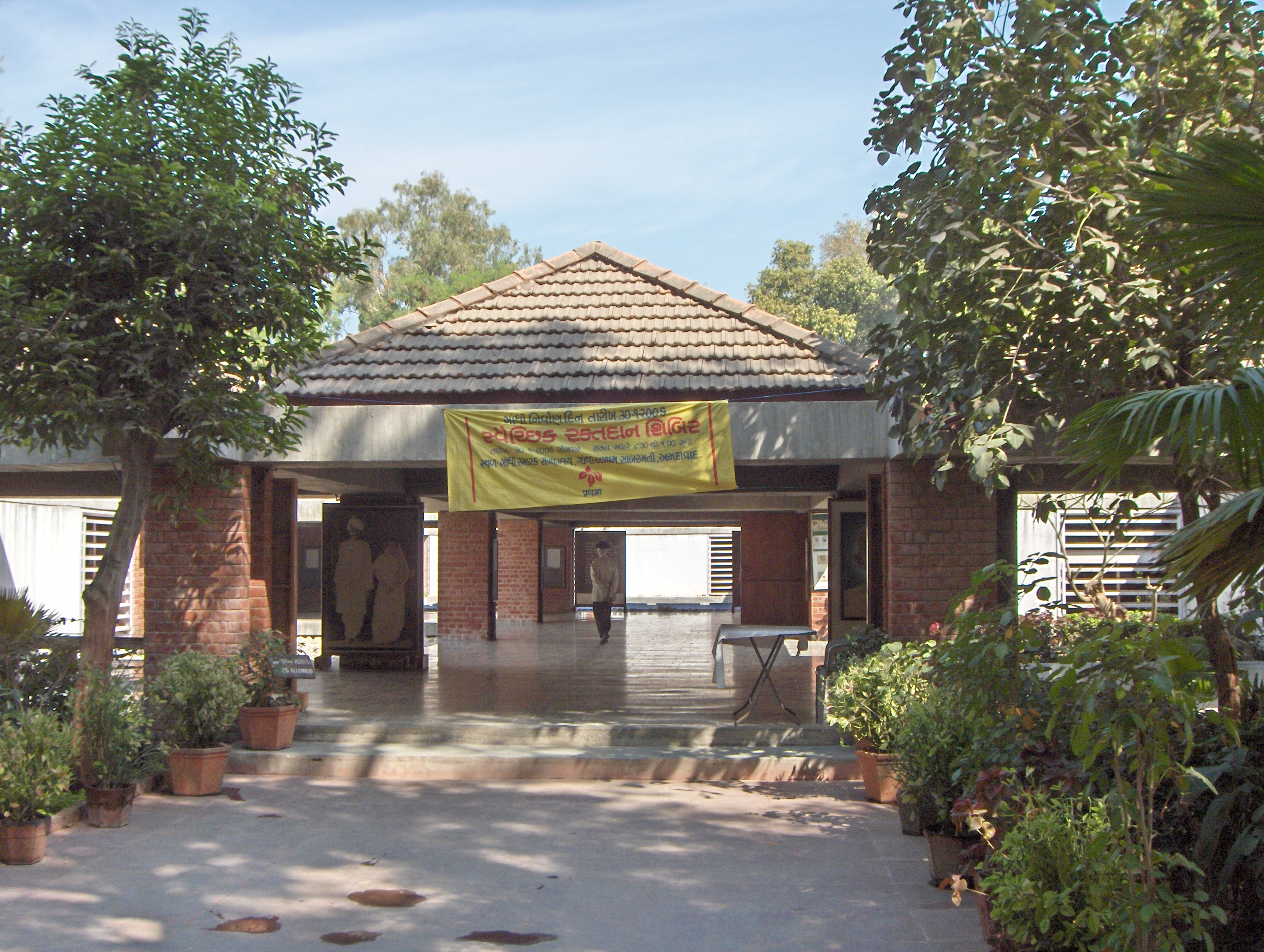 Sabarmati Ashram in Ahmedabad, India Picture taken by me, Nichalp on 28-Jan-2006